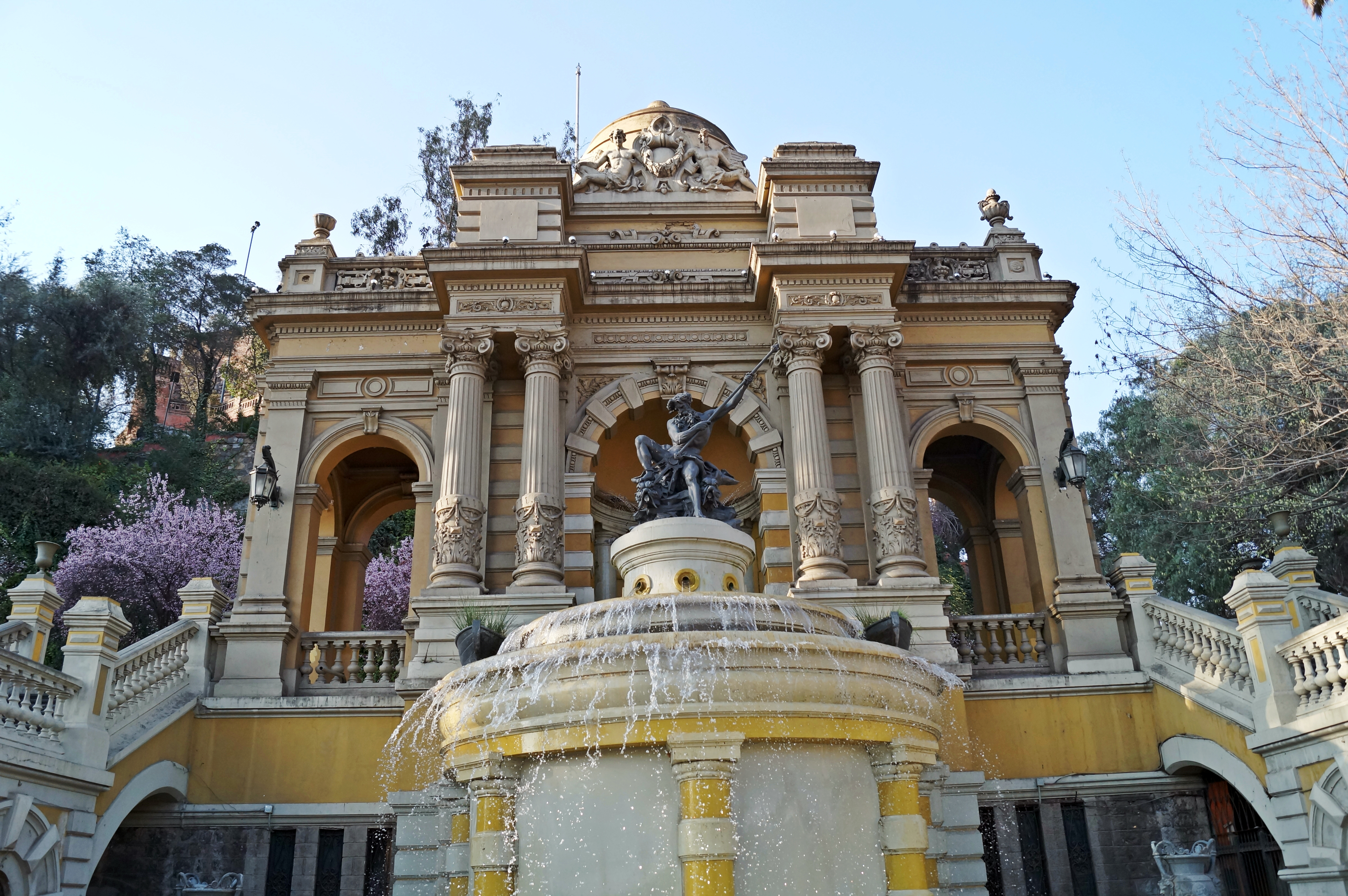 This is a photo of a national monument in Chile: 226